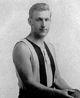 Photograph of Harry Chesswas from 1922-1931